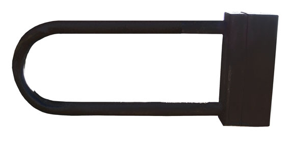 Description Antivol en forme de U Date21 November 2005SourcePhoto prise par La CigaleAuthorLa CigalePermission(Reusing this file) libre utilisation Antivol en forme de U